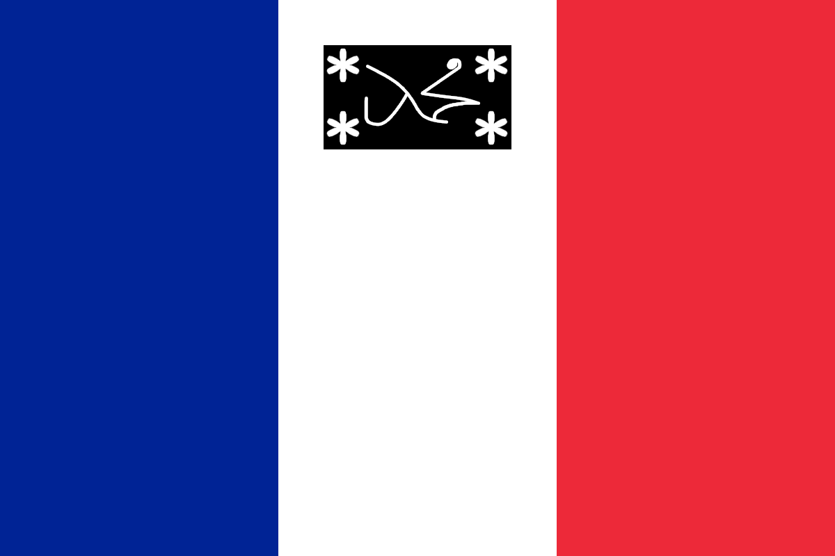 Natukhaj tribe flag